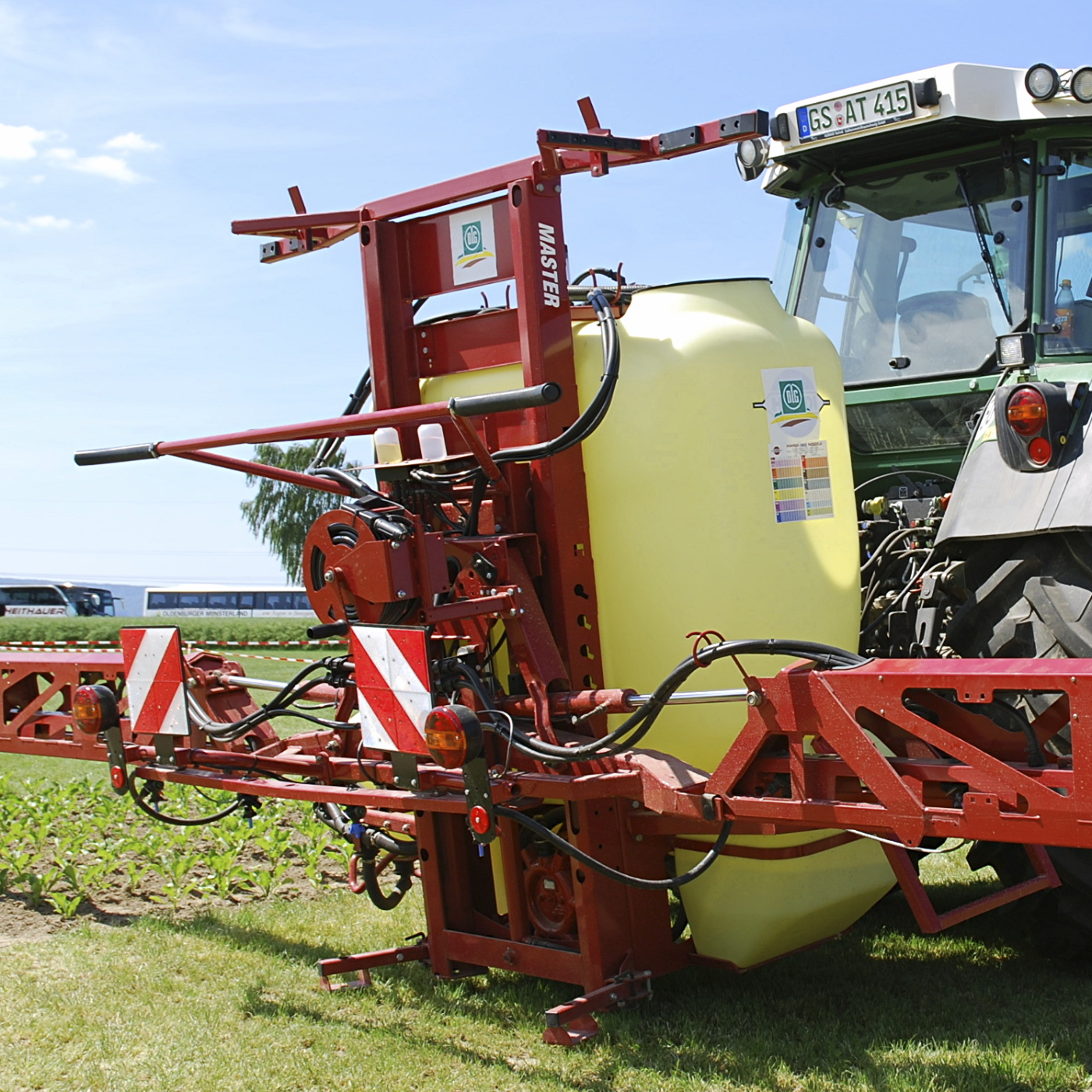 Hardi Master field sprayer mounted on a Fendt 415 Vario TMS tractor; DLG field days 2010, Gut Bockerode, Springe-Mittelrode, Lower Saxony, Germany.